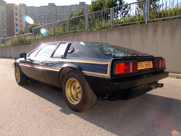 Lotus Type 79 Esprit S2 JPS limited edition